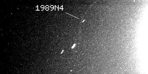 A Voyager 2 image showing newly-discovered Galatea (then designated S/1989 N 4) and ring arcs orbiting Neptune.